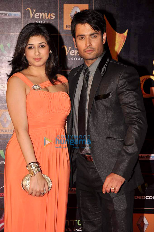 Dorabjee and Dsena at Renault Star Guild Awards 2013